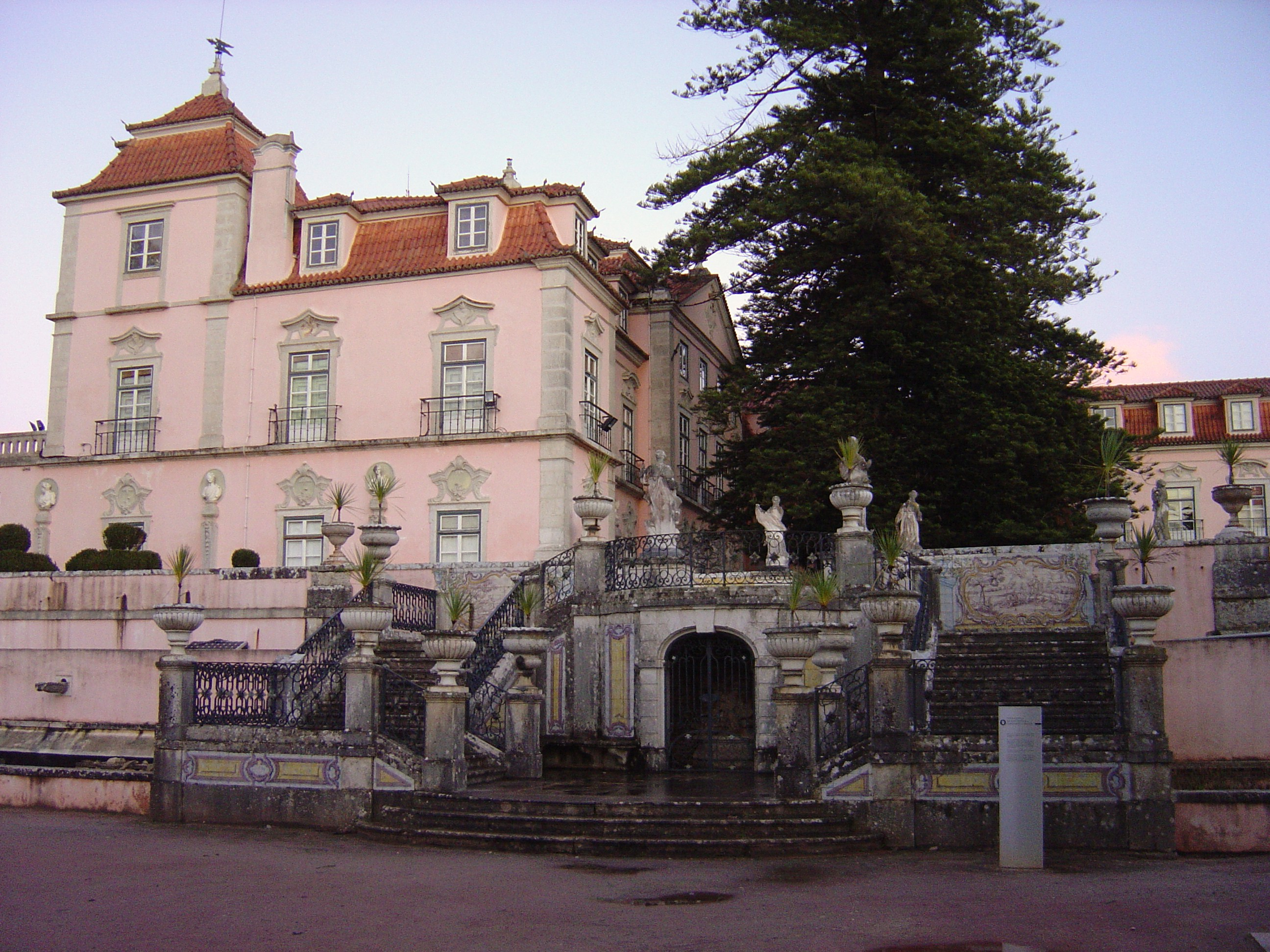 Oeiras, Portugal